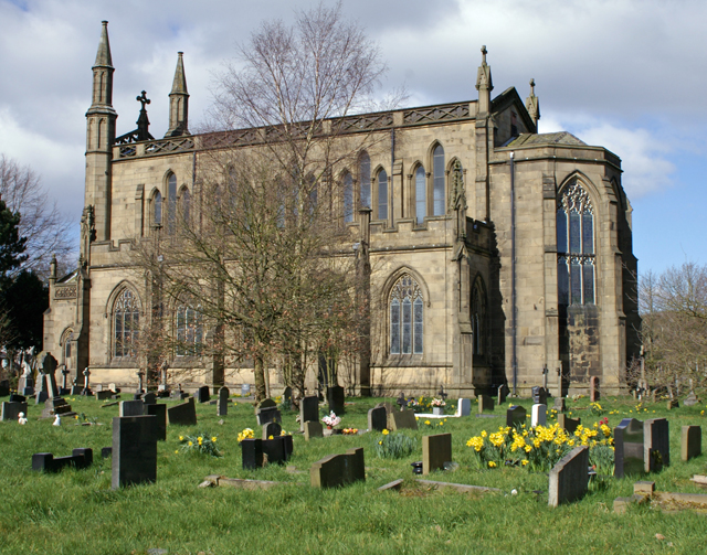 Pleasington Priory, Lancashire, seen from the southeast